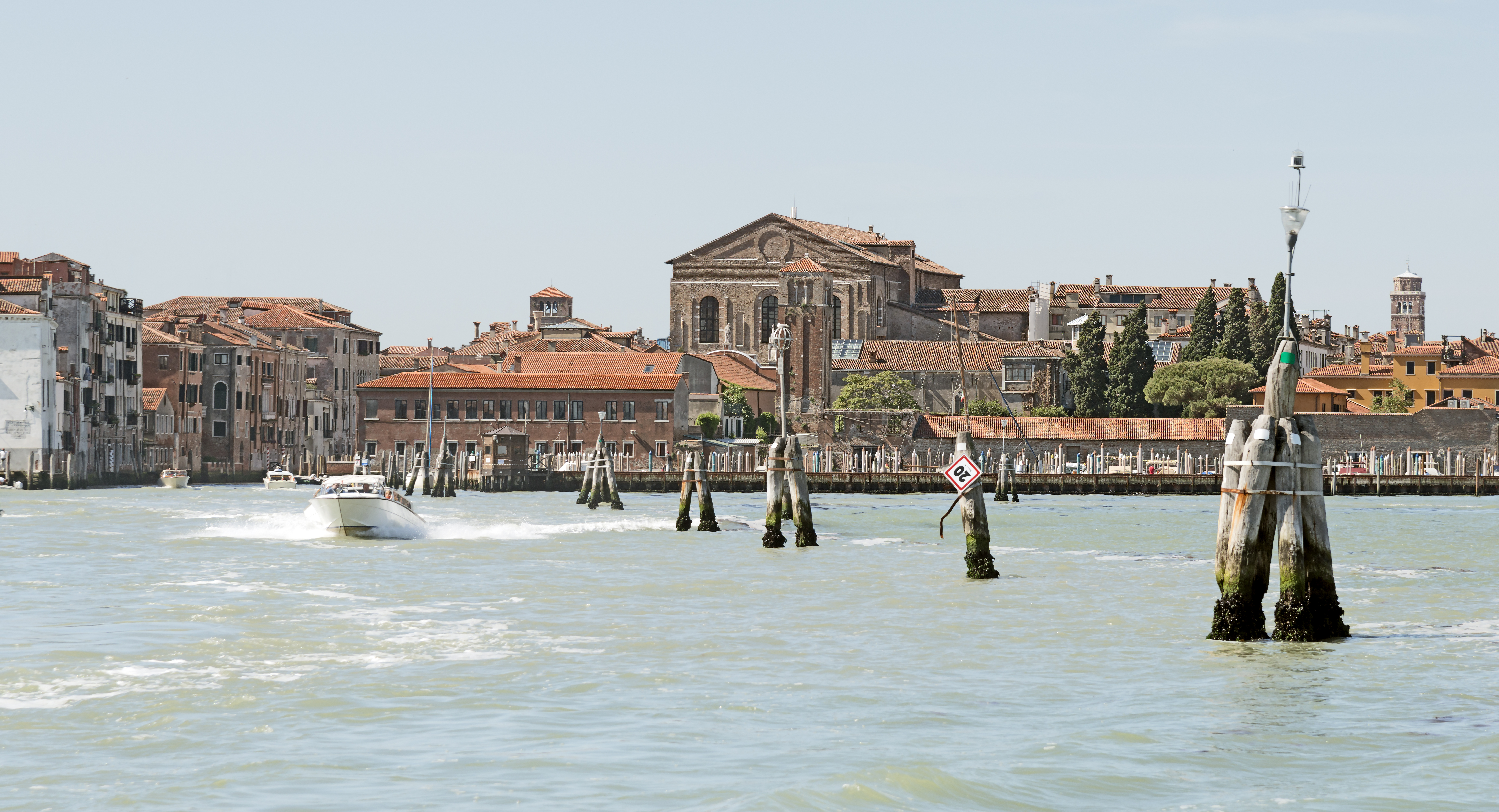 Canale and Sacca de la Misericordia Venice.